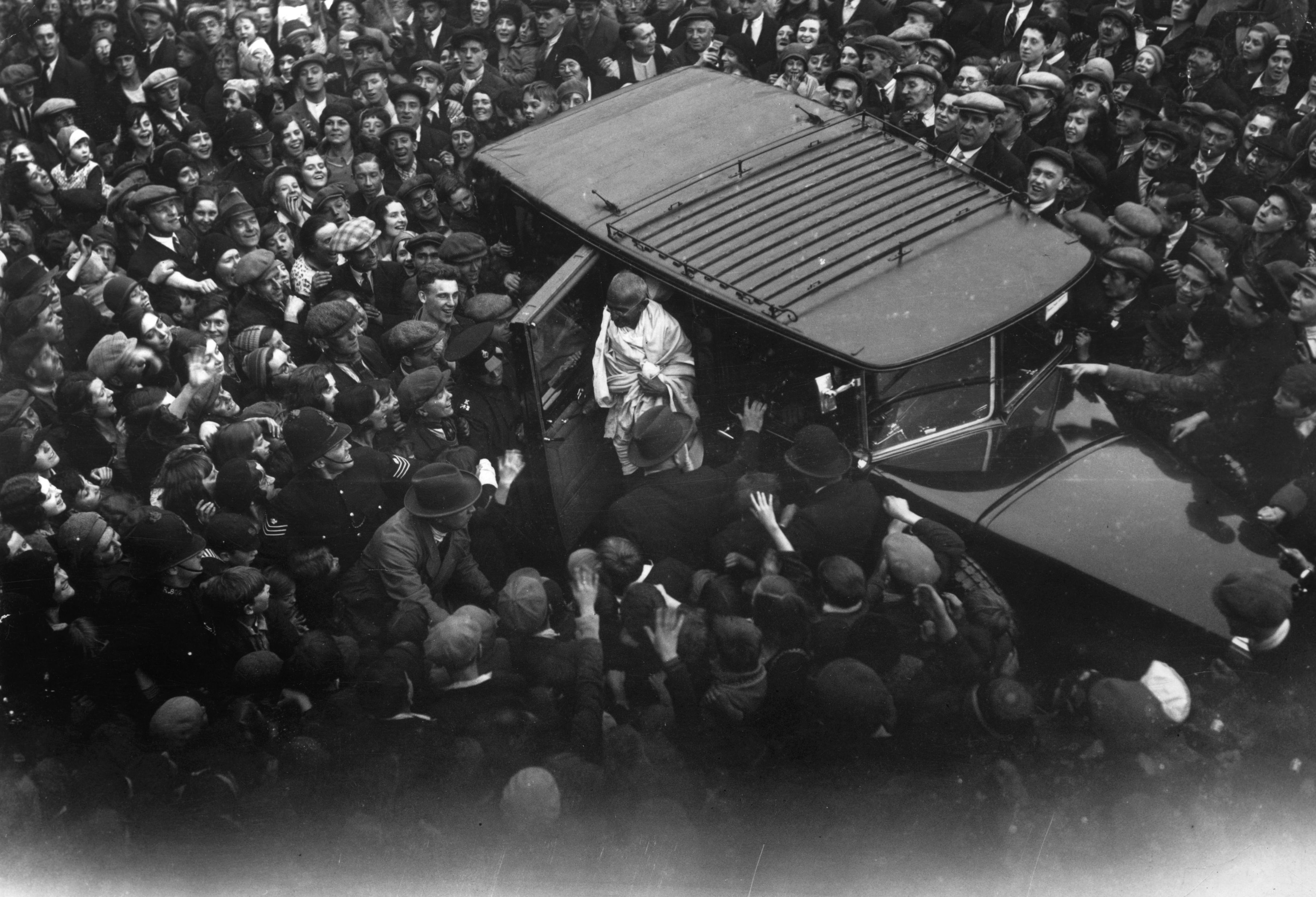 Gandhi in London, September 22, 1931: An admiring East End crowd gathers to witness the arrival of Mahatma Gandhi (Mohandas Karamchand Gandhi), in Canning Town, East London, as he calls upon Charlie Chaplin. Gandhi is in England in his capacity as leader of the Indian National Congress attending the London Round Table Conference on Indian constitutional reform.